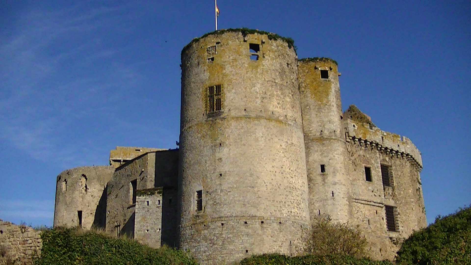 Château de Clisson. This building is en partie classé, en partie inscrit au titre des Monuments Historiques. Object location47° 05′ 12″ N, 1° 16′ 51″ W